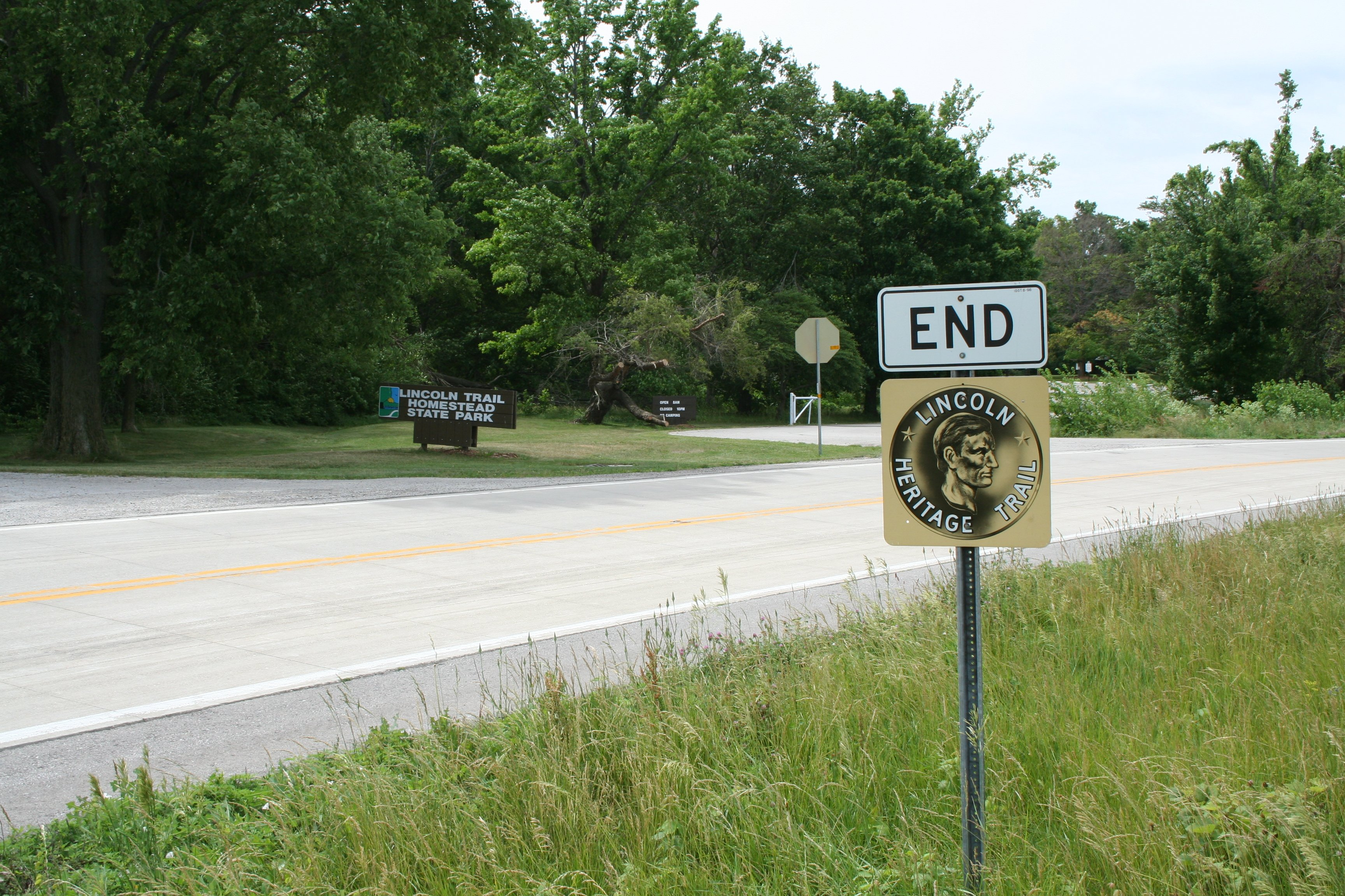 End_Lincoln_Heritage_Trail_and_Lincoln_Trail_Homestead_State_Park_signs